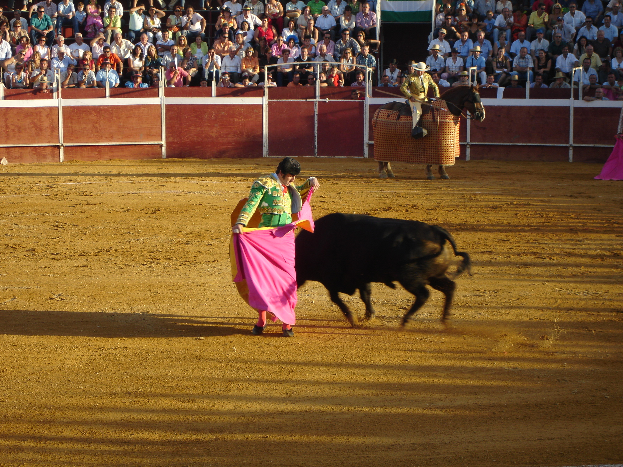 Juan Jose Padilla, bullfighting during Feria at Arcos de la Frontera. Andalusia (Spain)